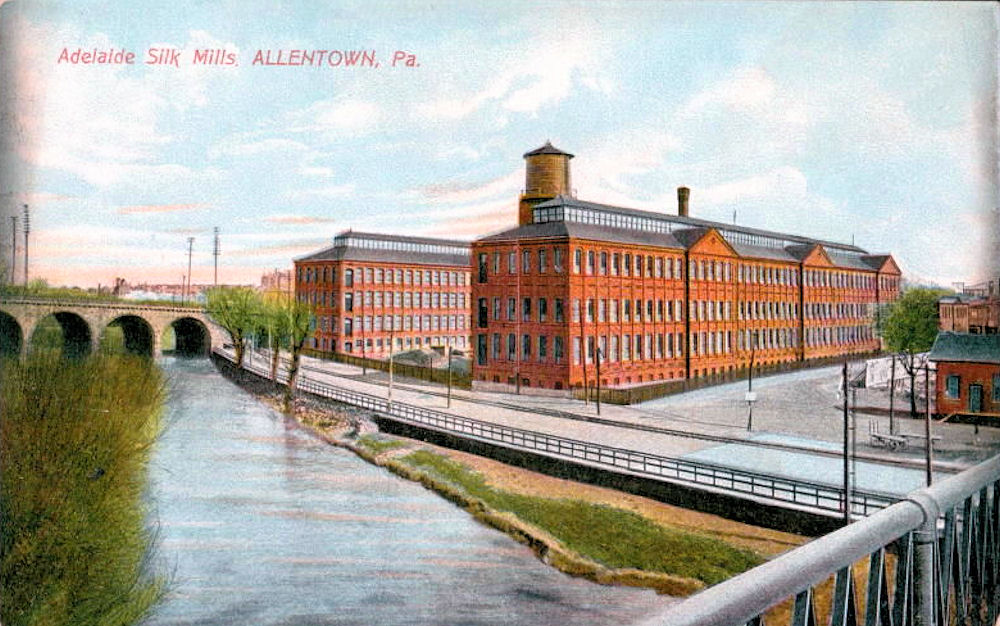 Postcard of Adelaide Silk Mill - 1910 Later known as Phoenix Clothing, the Adelaide Silk Mill became one of the largest producers of silk products in the United States. By 1900, there were twenty-three silk establishments in Allentown, making Pennsylvania second only to New Jersey in silk production. The silk industry in Pennsylvania and the United States peaked in the late 1920s. After that the Great Depression, increasing labor unrest, and competition from rayon began to affect the industry locally and nationally. During World War II the supply of silk disappeared because nearly all of it had been imported from Japan. After the war, new synthetic fibers, especially nylon, replaced silk in many garments and the plant began to produce clothing for major retailers such as Sears, Montgomery Ward, J. C. Penny and other brands. Phoenix Clothing remained in production until about 1985 until declaring bankruptcy citing foreign competition and lower manufacturing costs overseas. After closing, the building became a large storage facility. Current plans for the empty mill is for it to be totally renovated into a apartments